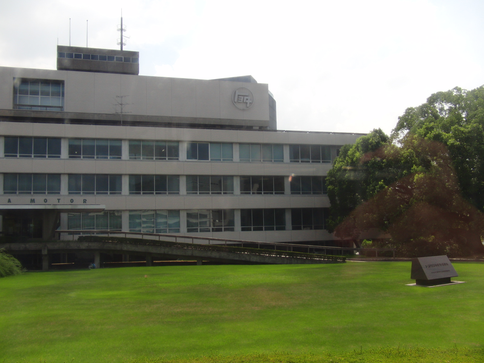 Toyota headquarters